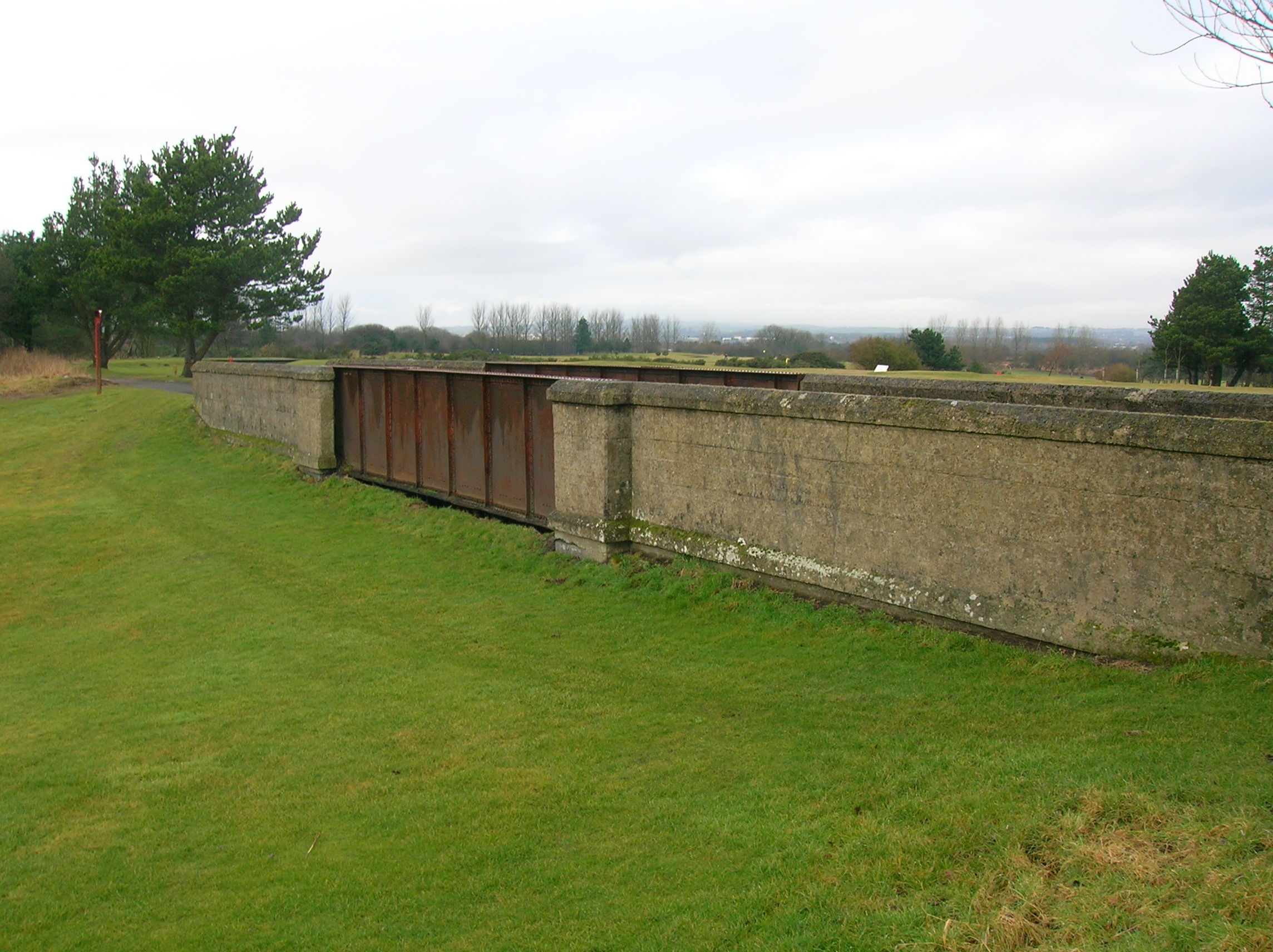 The old railway bridge, Ravenspark Golf Course, on the Caledonian Railway near the site of Bogside station, Irvine, North Ayrshire, Scotland.